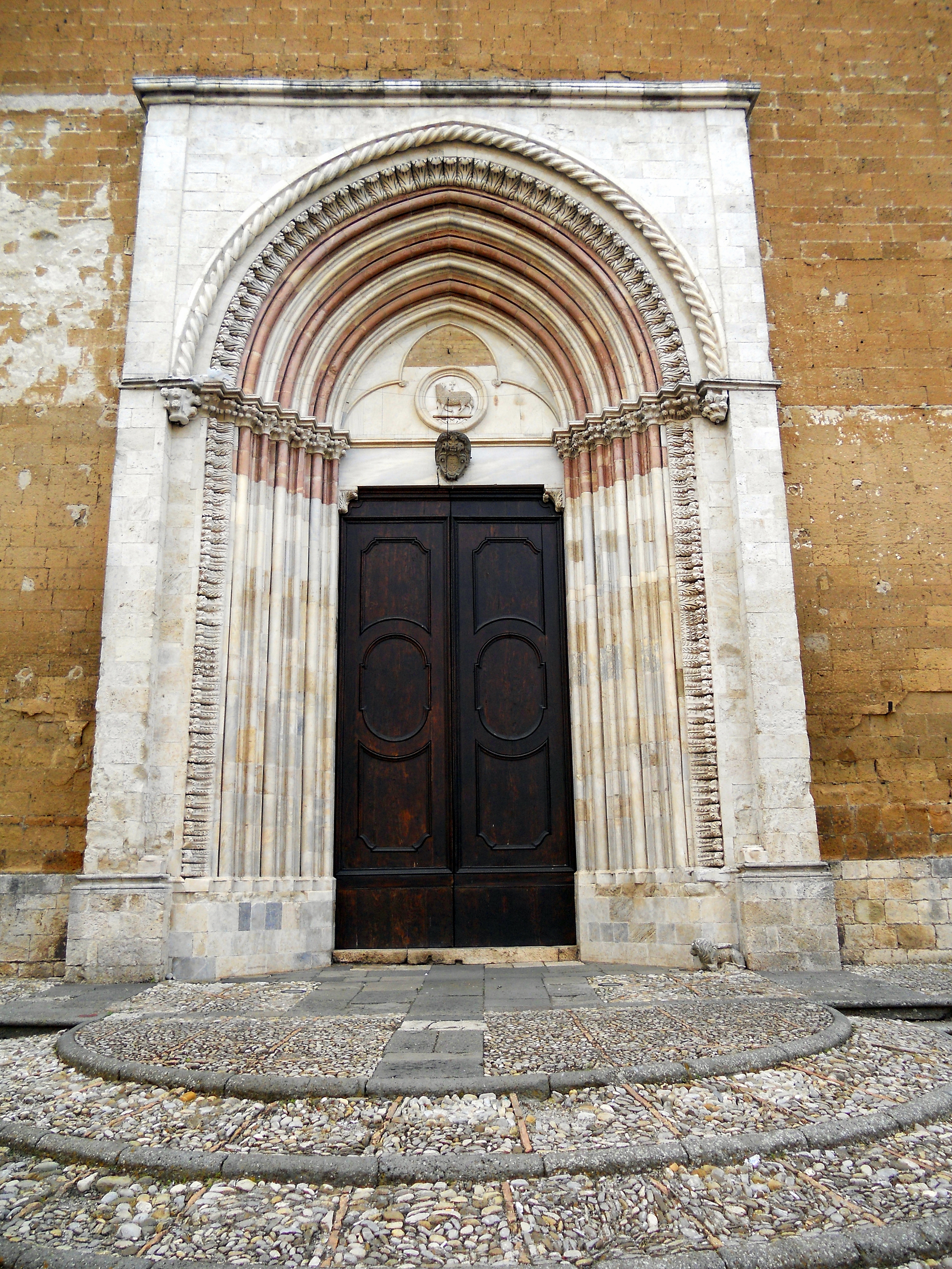 Middle door of San Francesco church, Orvieto, Umbria, Italy